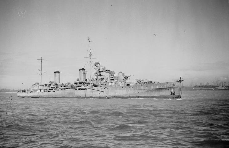 Photograph of British light cruiser HMS Aurora at anchor off the coast of Liverpool.